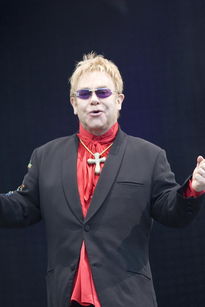 Elton John, English singer-songwriter and pianist, on stage at the Keepmoat Stadium, Doncaster, England.